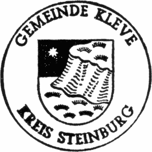 Seal of the municipality Kleve in Schleswig-Holstein, Germany